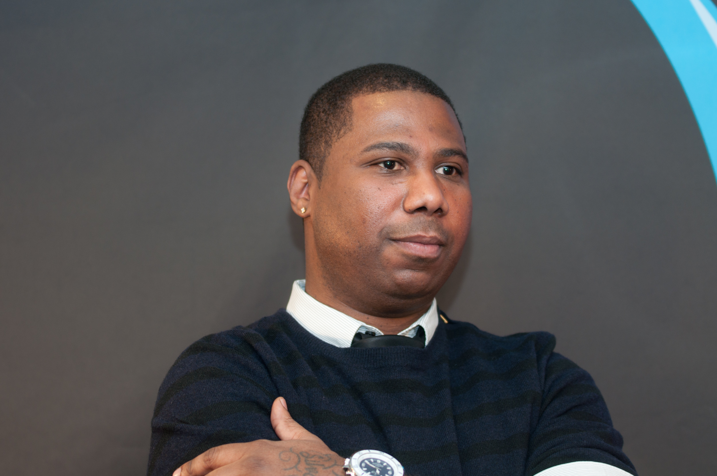 Swingfly 2010 at a press conference for Melodifestivalen 2011